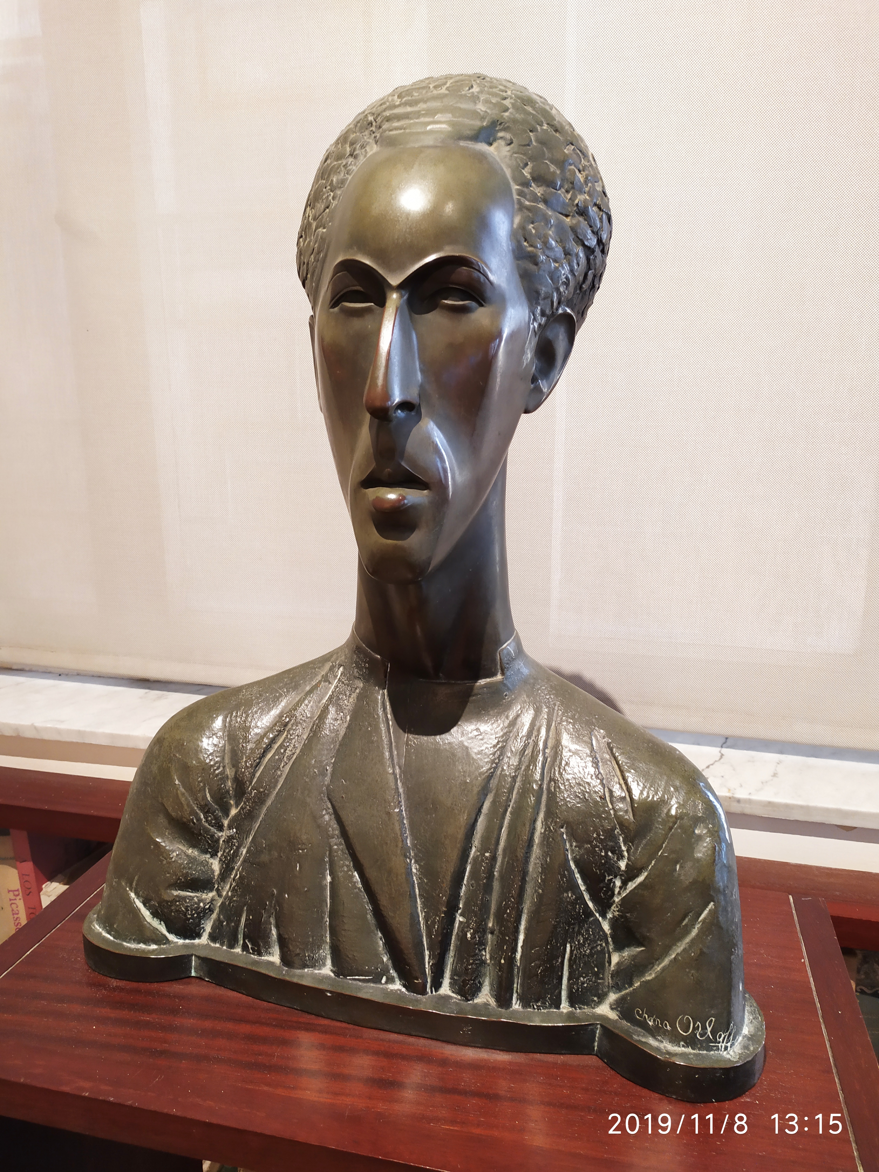 מוזיאון בית ראובן תל אביב